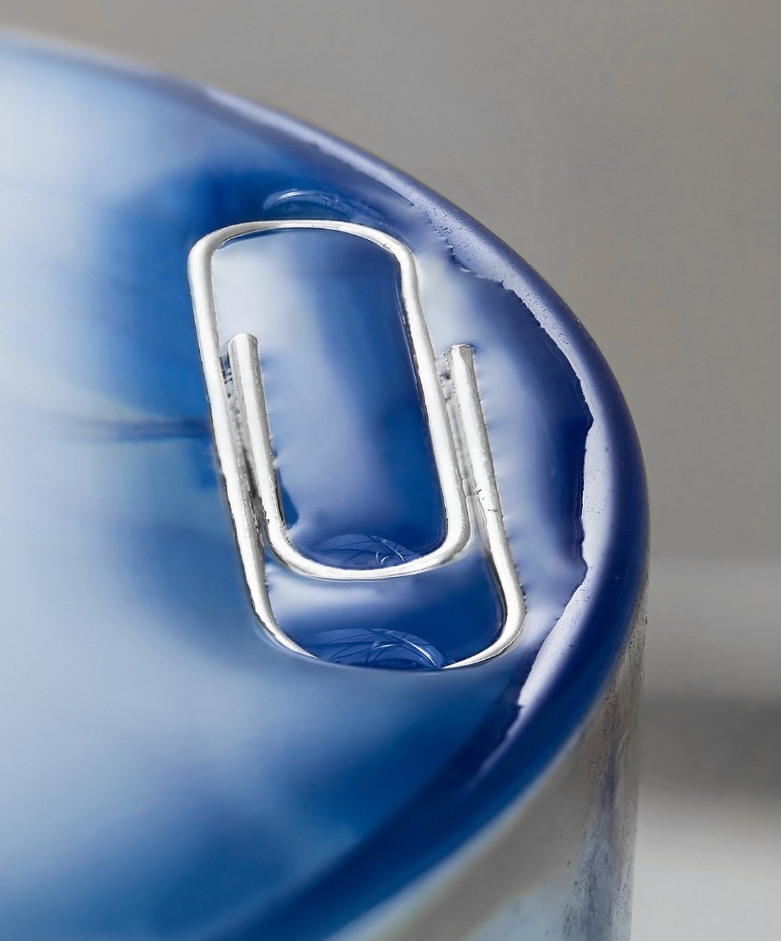 Demonstration of surface tension, a paper clip in a full, blue, glass.